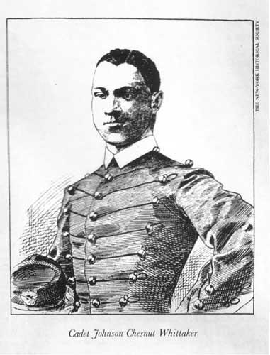 Johnson C. Whittaker, African-American student at West Point